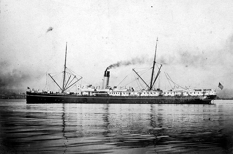 A side view of the steamship Victoria. She was built in 1870 as the SS Parthia for the Cunard Line. This photograph shows Victoria prior to her 1924 refit, dating this photograph at some point between 1894 and 1924.